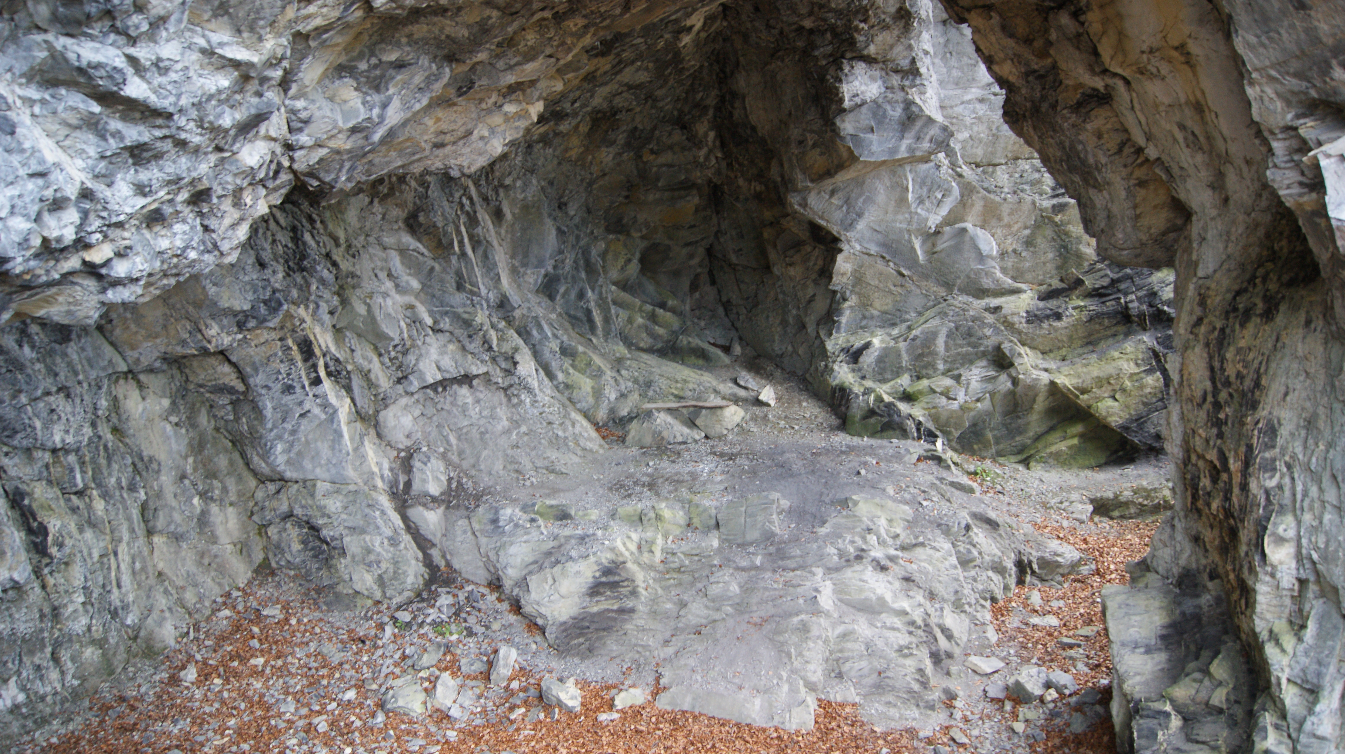 The Whetstone cave (Wetzsteinhoehle) is located in the sub-plot "Steinbruch" (meaning: "quarry") in the village Bizau in Vorarlberg, in the middle of the forest at about 700 masl in Austria. Below the Wetzsteinhoehle the Huettbach flows.